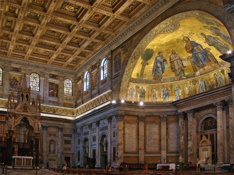 Basilica of Saint Paul Outside the Walls, Vatican, located in Rome, Lazio, Italy. Transept perspective.